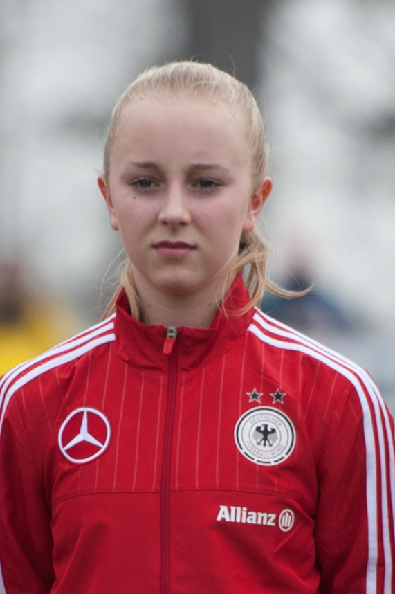 UEFA European Women's U17 Championship elite round Germany vs. Switzerland, 2016-03-19